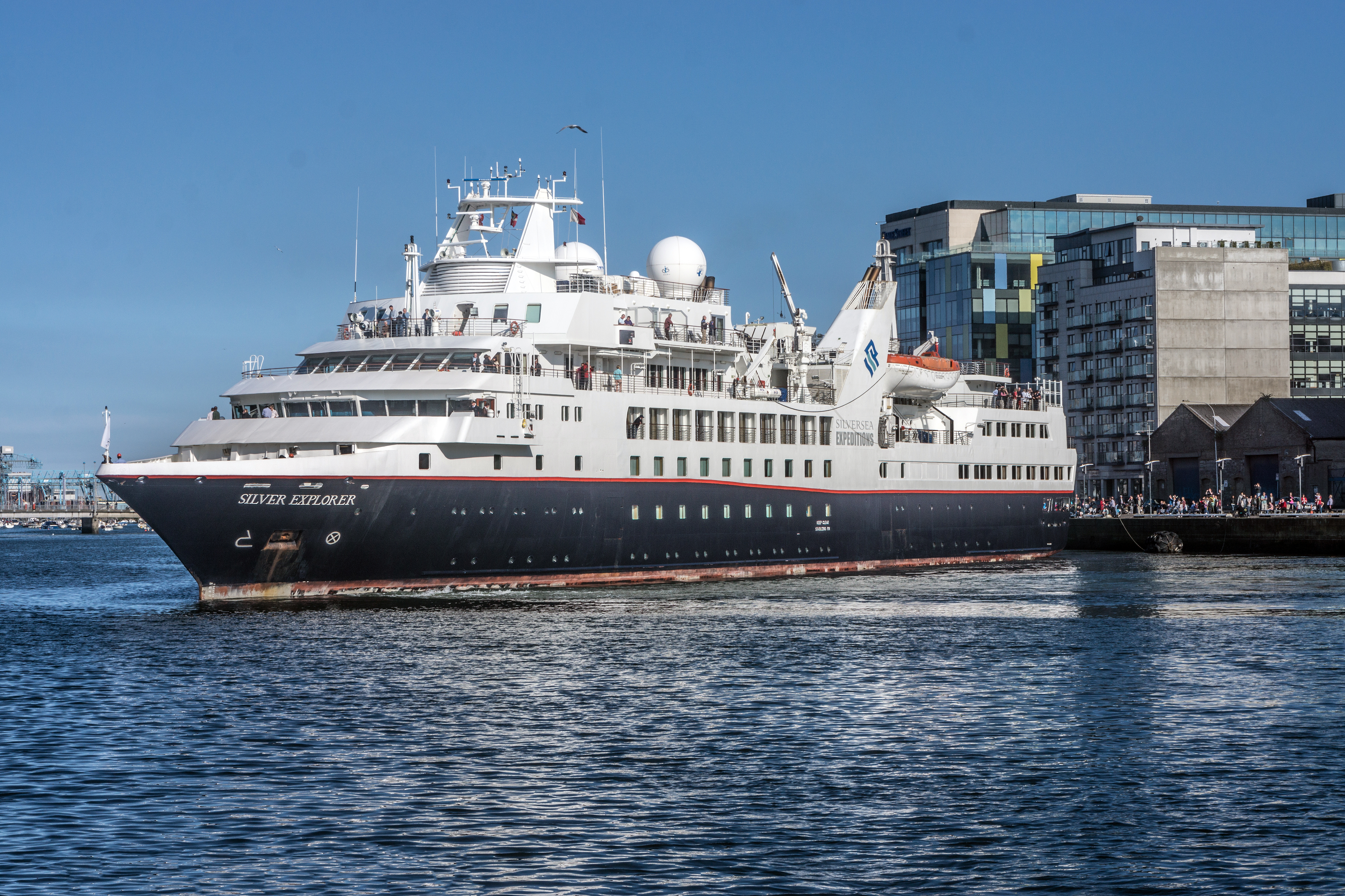 Cruise ship Silver Explorer in Dublin